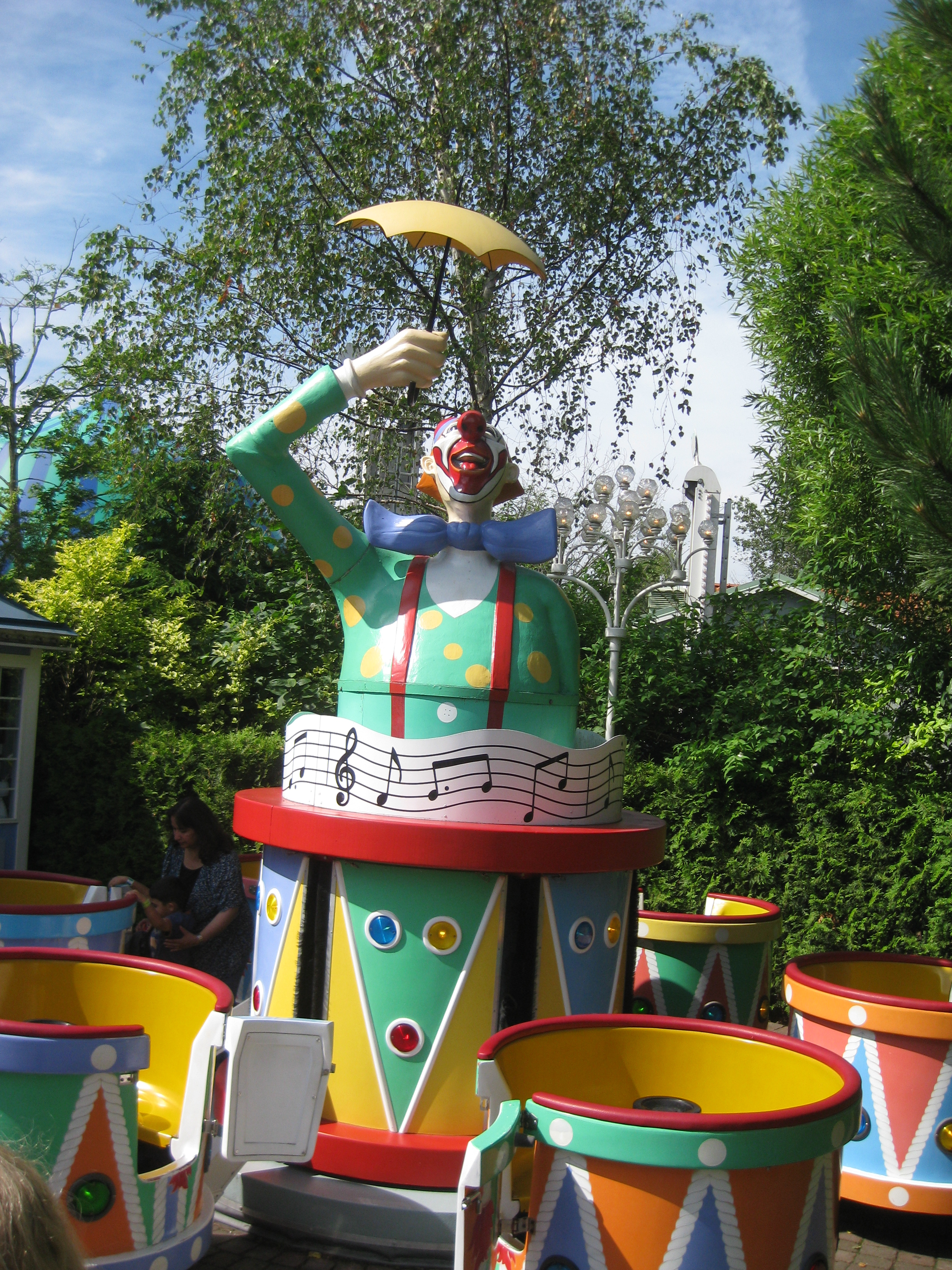 The amusement ride Trummeliten at the amusement park Liseberg, in Gothenburg, Sweden.